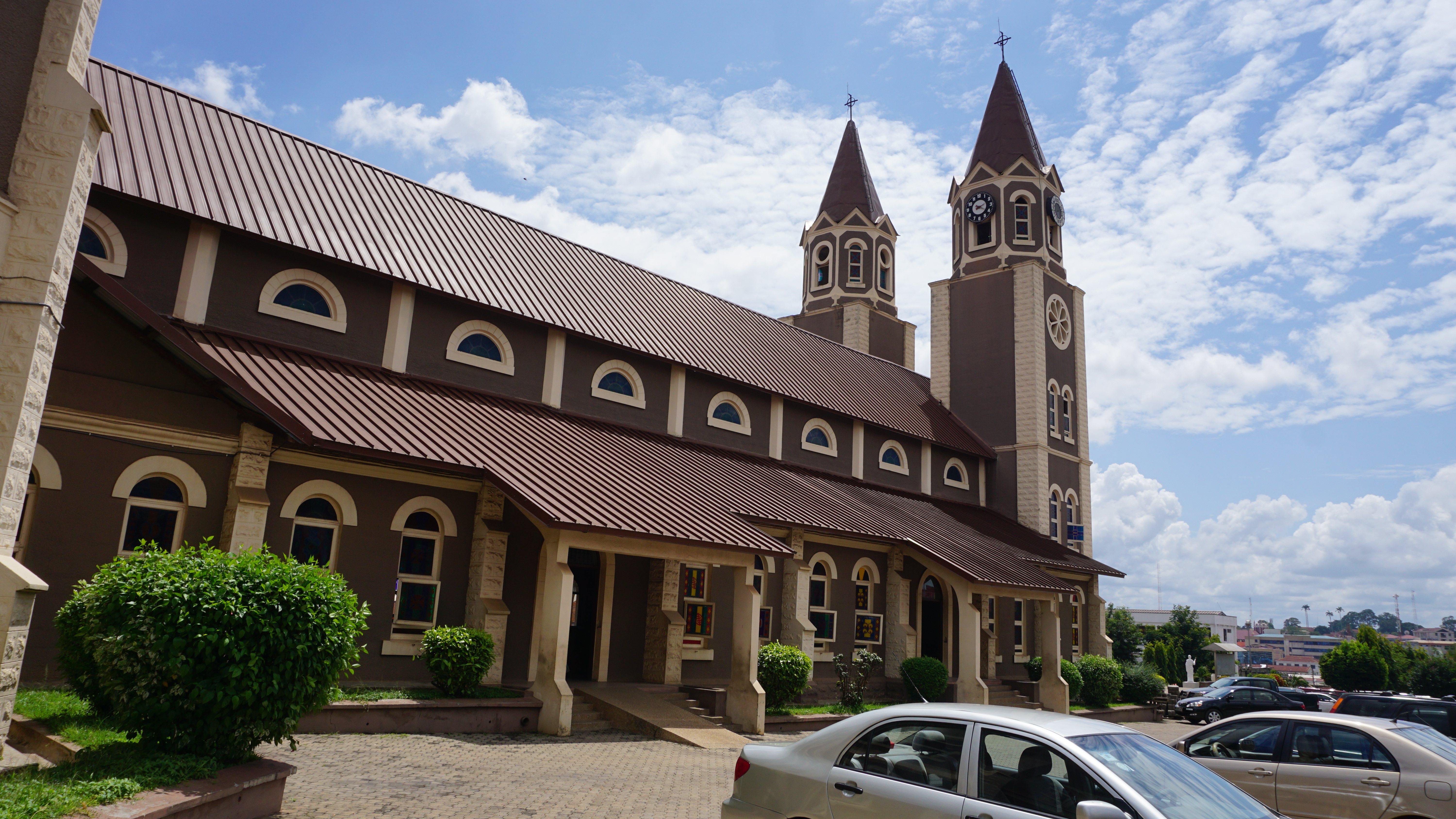 St. Peter's Cathedral Basilica church located at Roman Hill